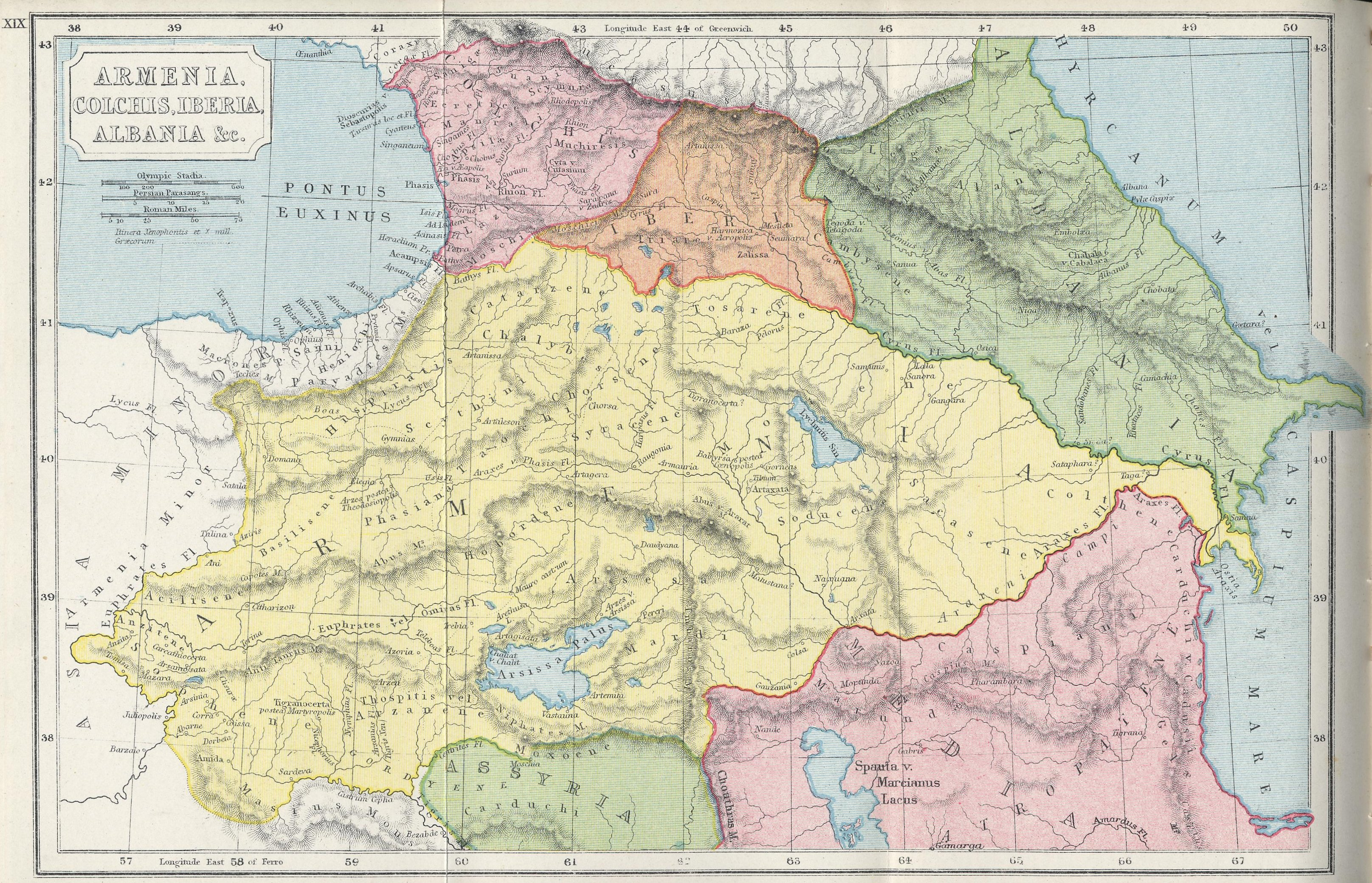 Armenia, Colchis, Iberia, Albania, Etc from "The Atlas of Ancient and Classical Geography by Samuel Butler"